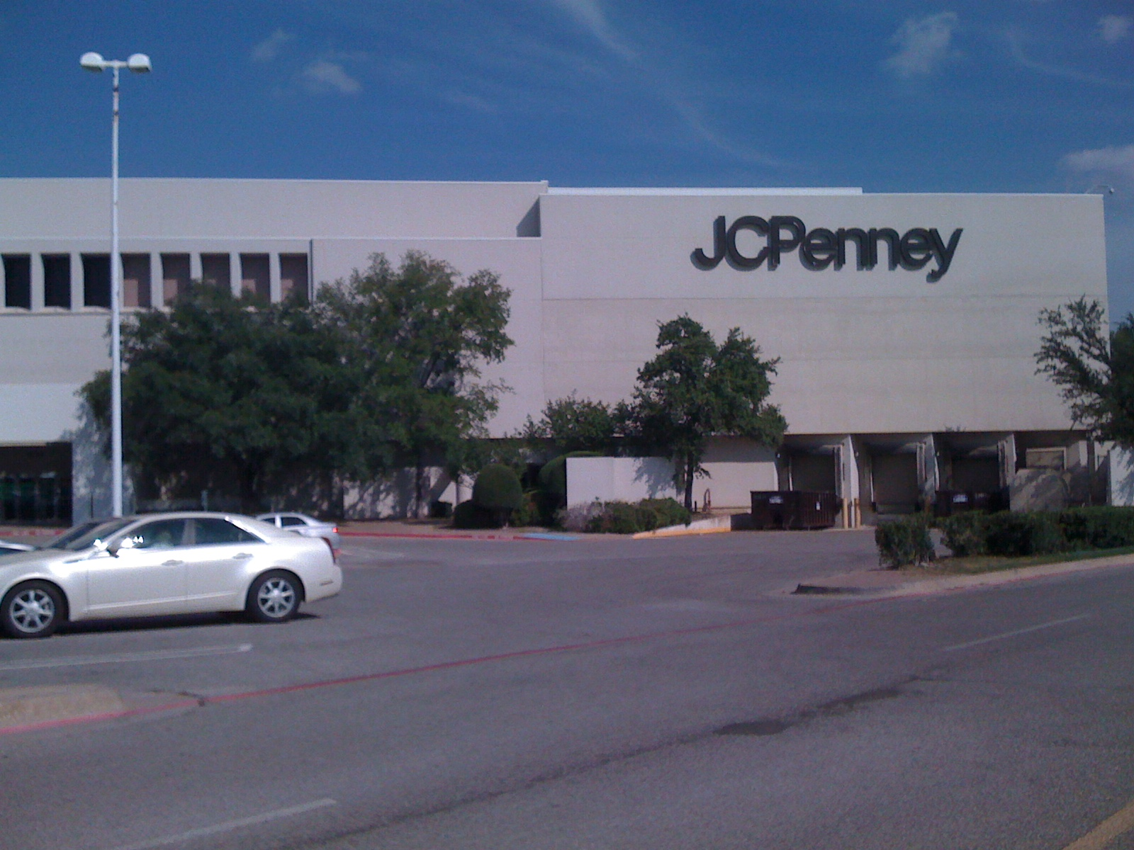 The J.C. Penney store at Valley View Center in Dallas, Texas. This fourth anchor store was added to the mall as a Bloomingdale's which opened in 1983. That store closed in 1990 and the anchor sat vacant until J.C. Penney opened here in 1996.